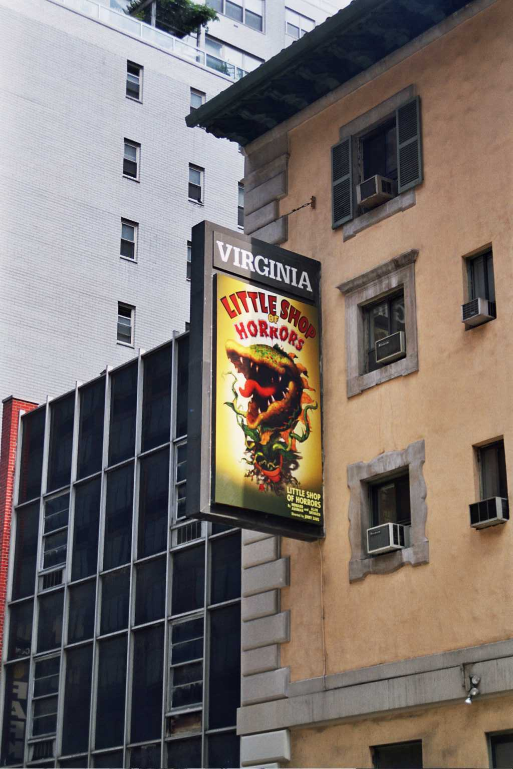 The Virginia Theatre in Broadway, with "LIttle Shop of Horrors"